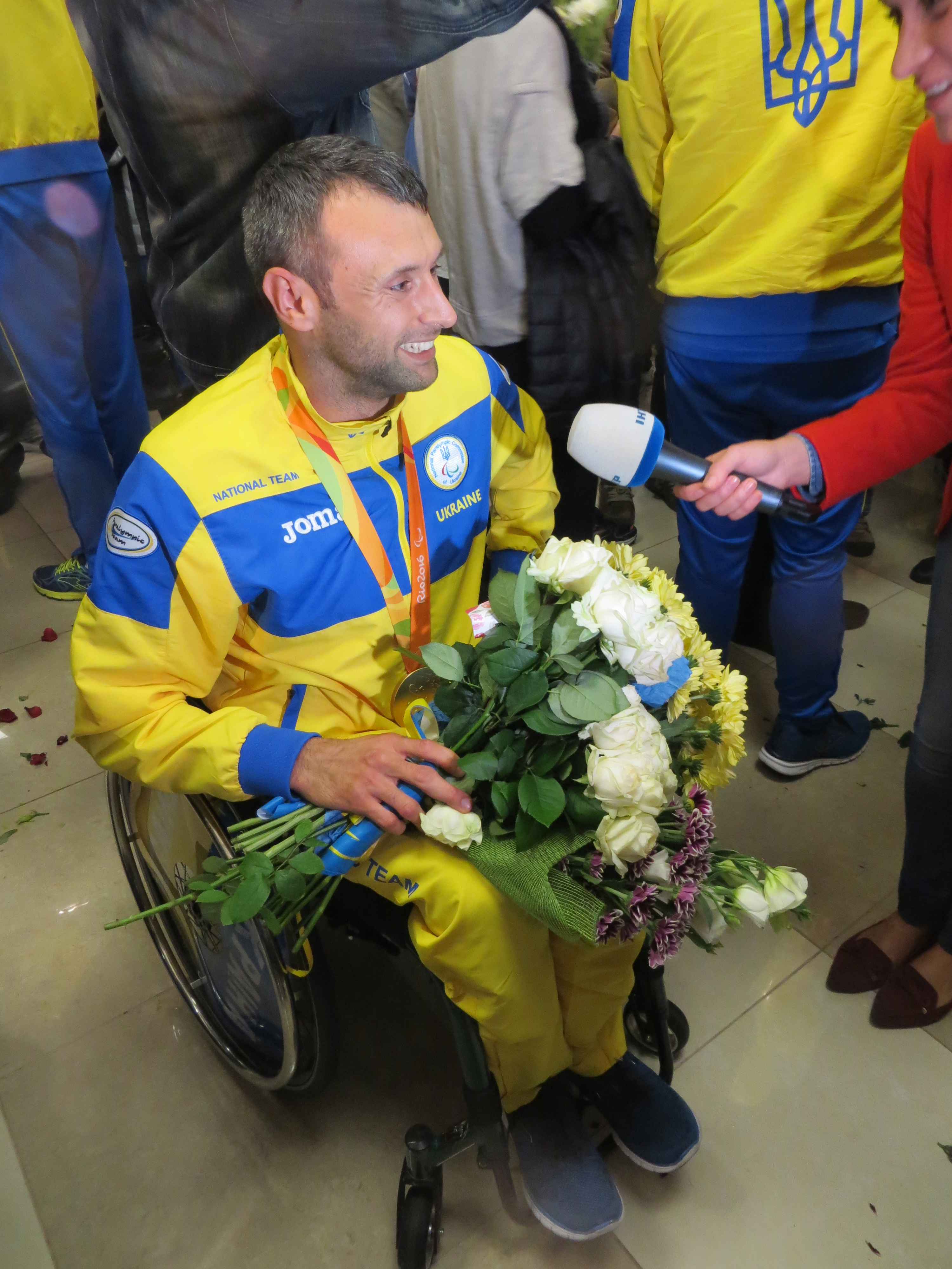 Ukrainian National Paralympic team welcomed at Boryspil (September 21, 2016)